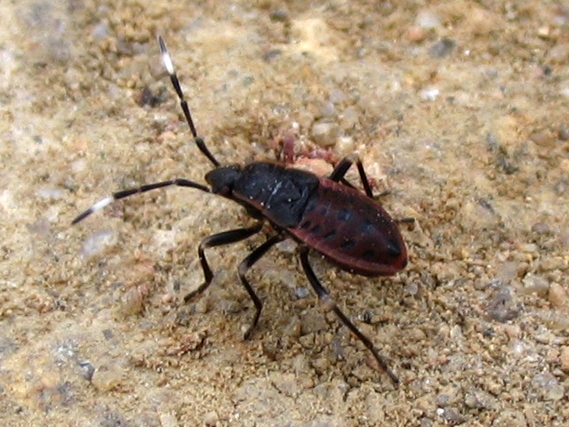 Photo of a Physopelta gutta nymph